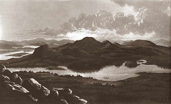 The midnight sun at Aavasaksa